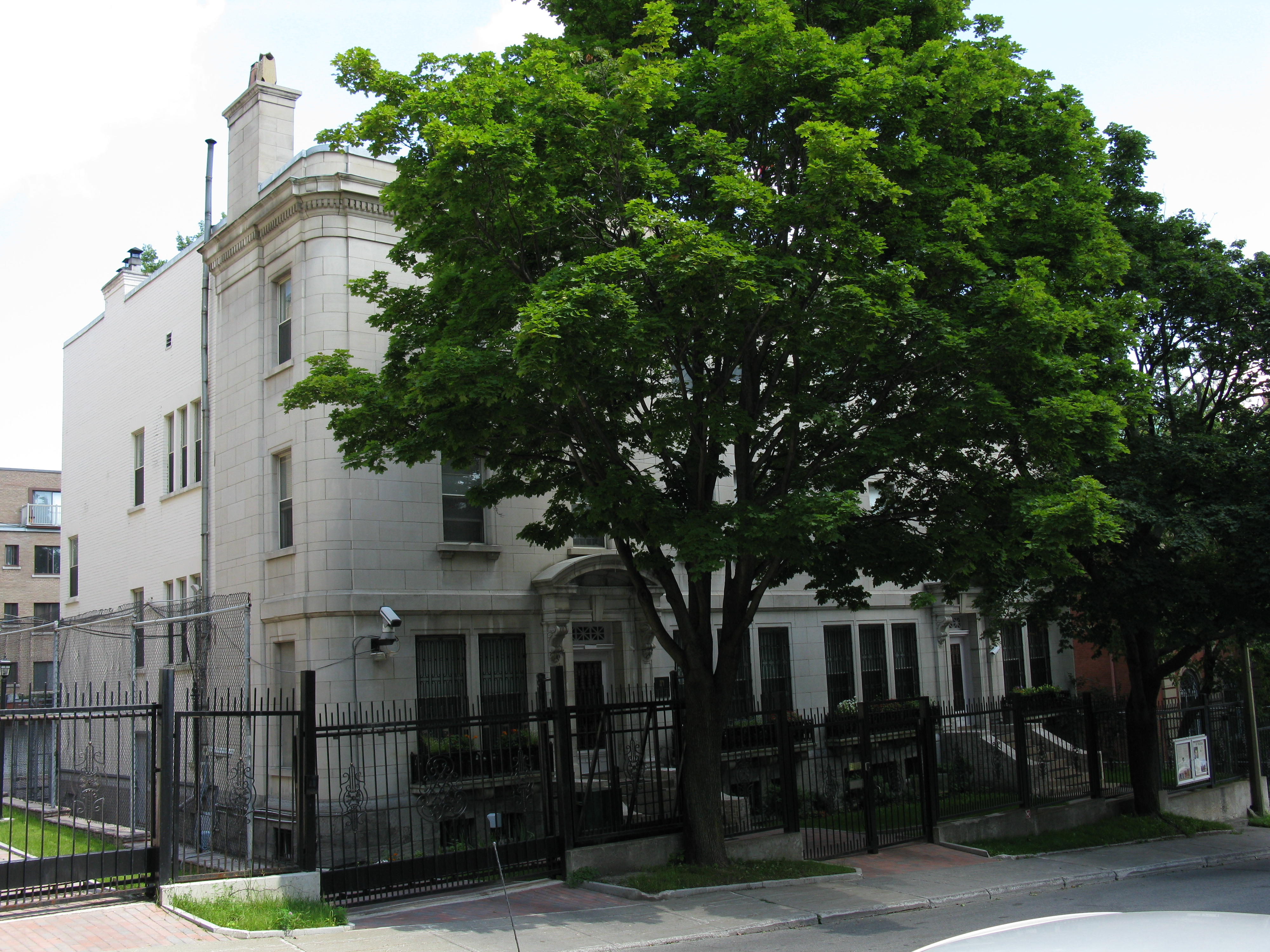 Russian Federation Consulate General in Montreal.